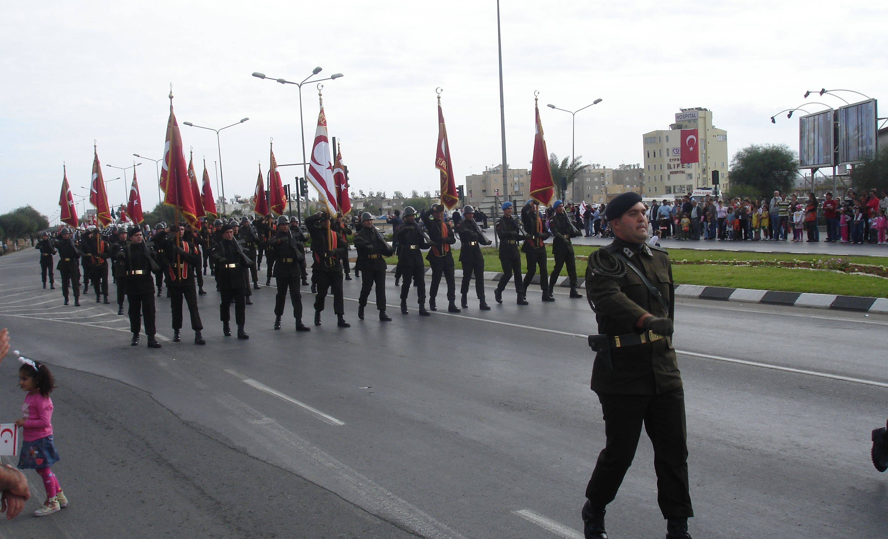 Turkish Cypriot troops parading in Northern Cyprus Republic Day celebrations, 15 November 2007 (to honour the declaration of the Turkish Republic of Northern Cyprus). Dr. Fazıl Küçük Boulevard, North Nicosia.